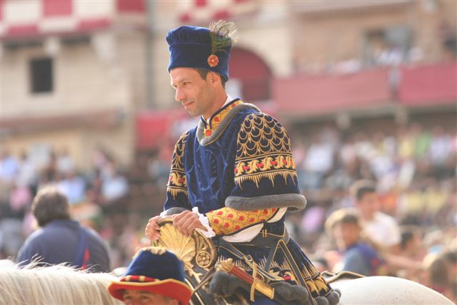 Italian jockey Alberto Ricceri